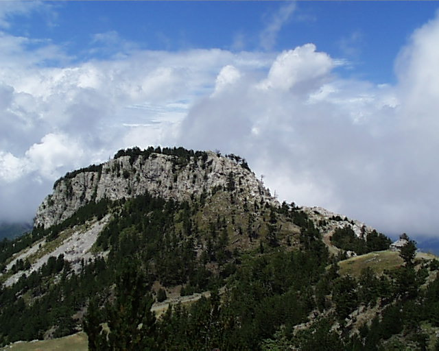 Beyond the pedestal crags of Mt. Gurit te Cikut, the Shenjtit highland road passes this limestone cockscomb of the formation (Cikut = 'rim' or 'edge') - average 35 m high and rising as one travels the Orosh logging road north past Male Gurit te Cikut